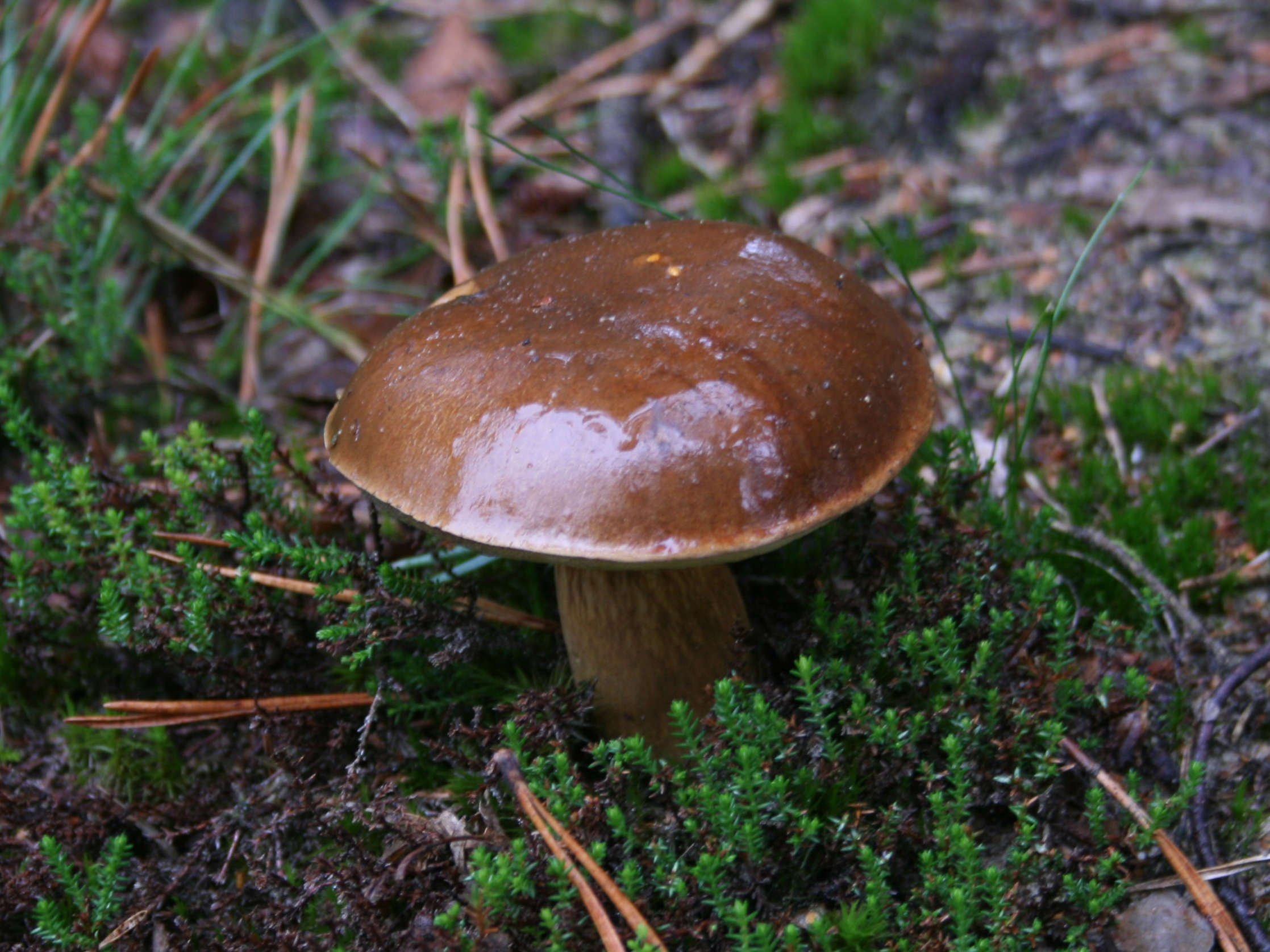 Bay bolete